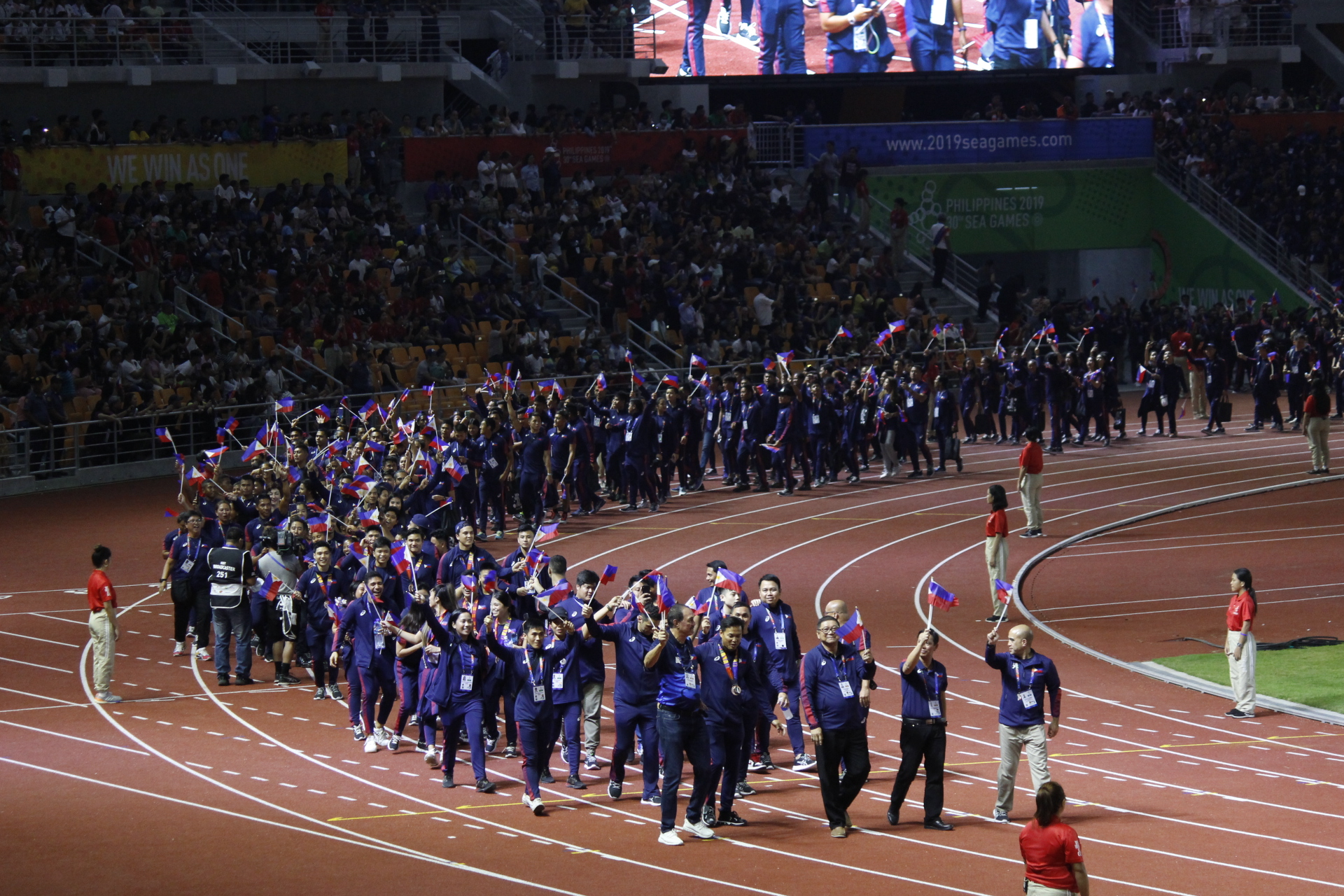 The crowd cheers for the Philippines as the team bags the Overall Championship trophy of the 30th SEA Games with 149 Gold, 117 Silver and 121 Bronze medals. (Gabriela Liana S. Barela/PIA 3)